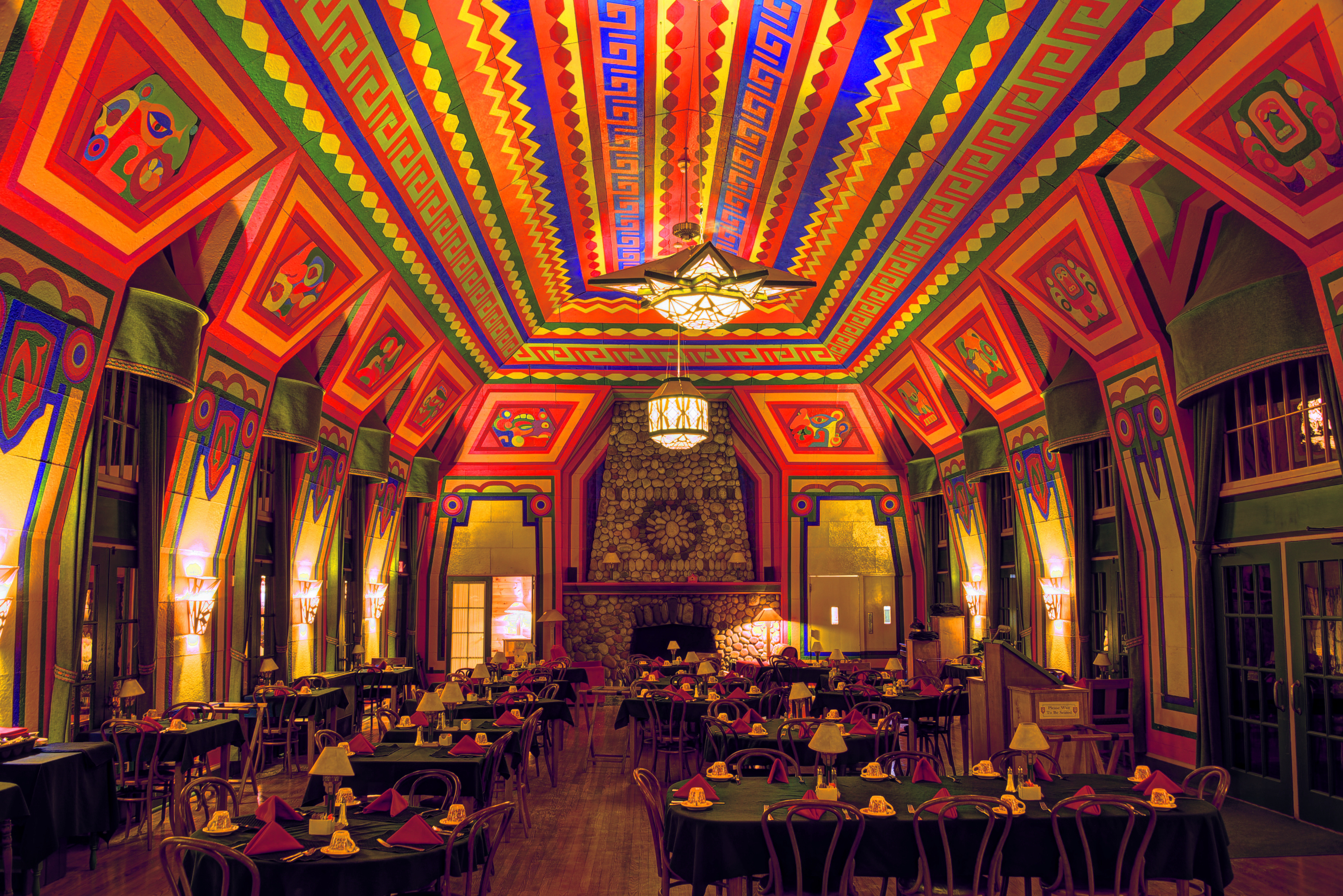 The common room at Naniboujou Lodge, with walls and ceiling painted in faux-Cree patterns.